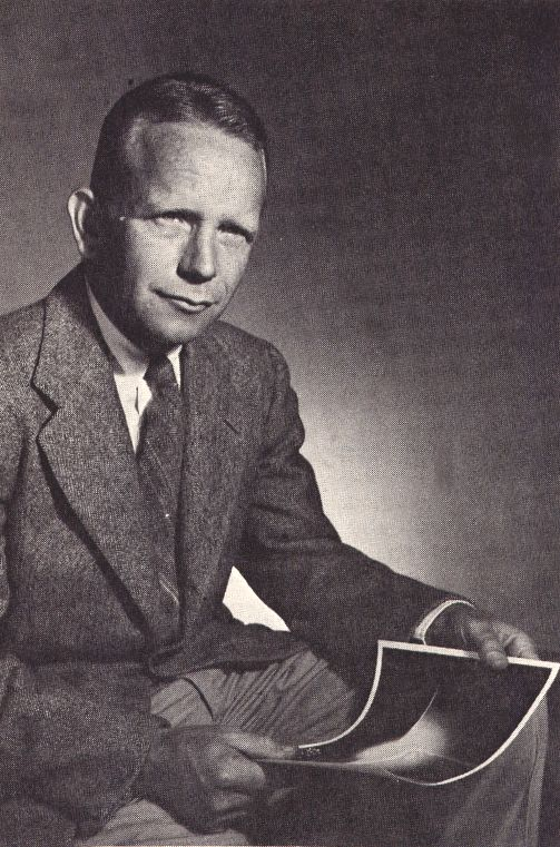 Portrait of Kenneth Bainbridge, holding a photo of the Trinity test, July 16, 1945